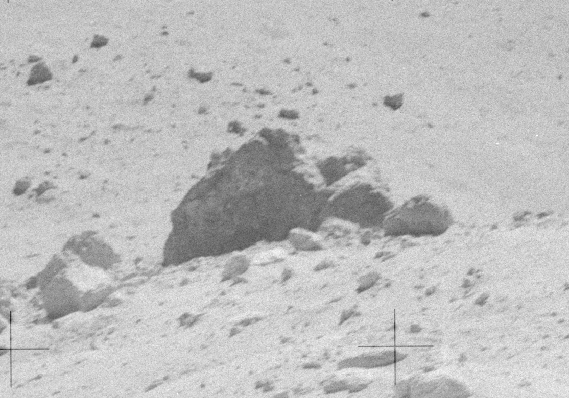 House Rock, on the moon.